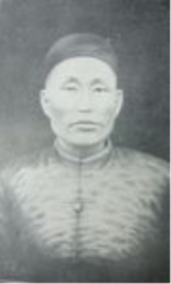 Shō Tokukō (Kōchi Ueekata Chōjō)